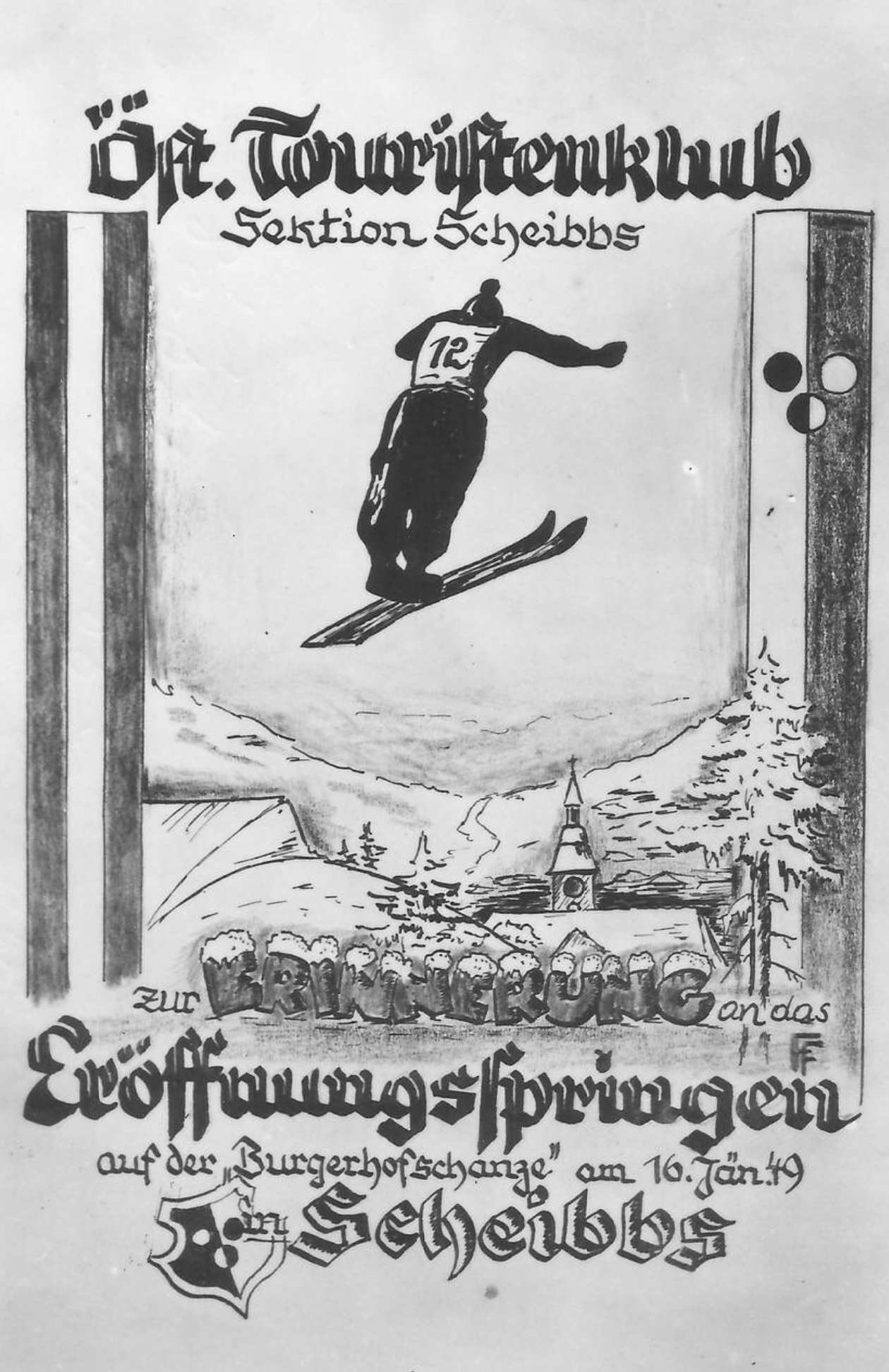 Skispringen Scheibbs